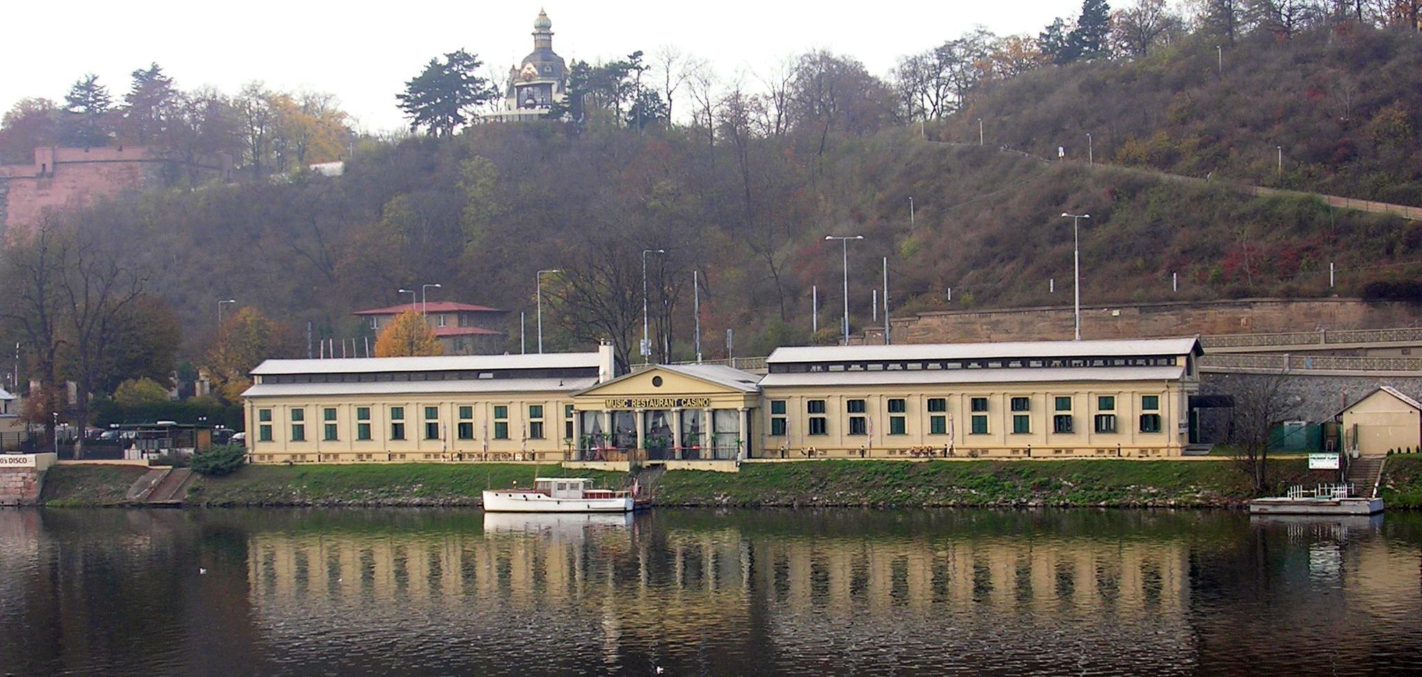 Holešovice, Prague. Chapel of Mary Magdalene.